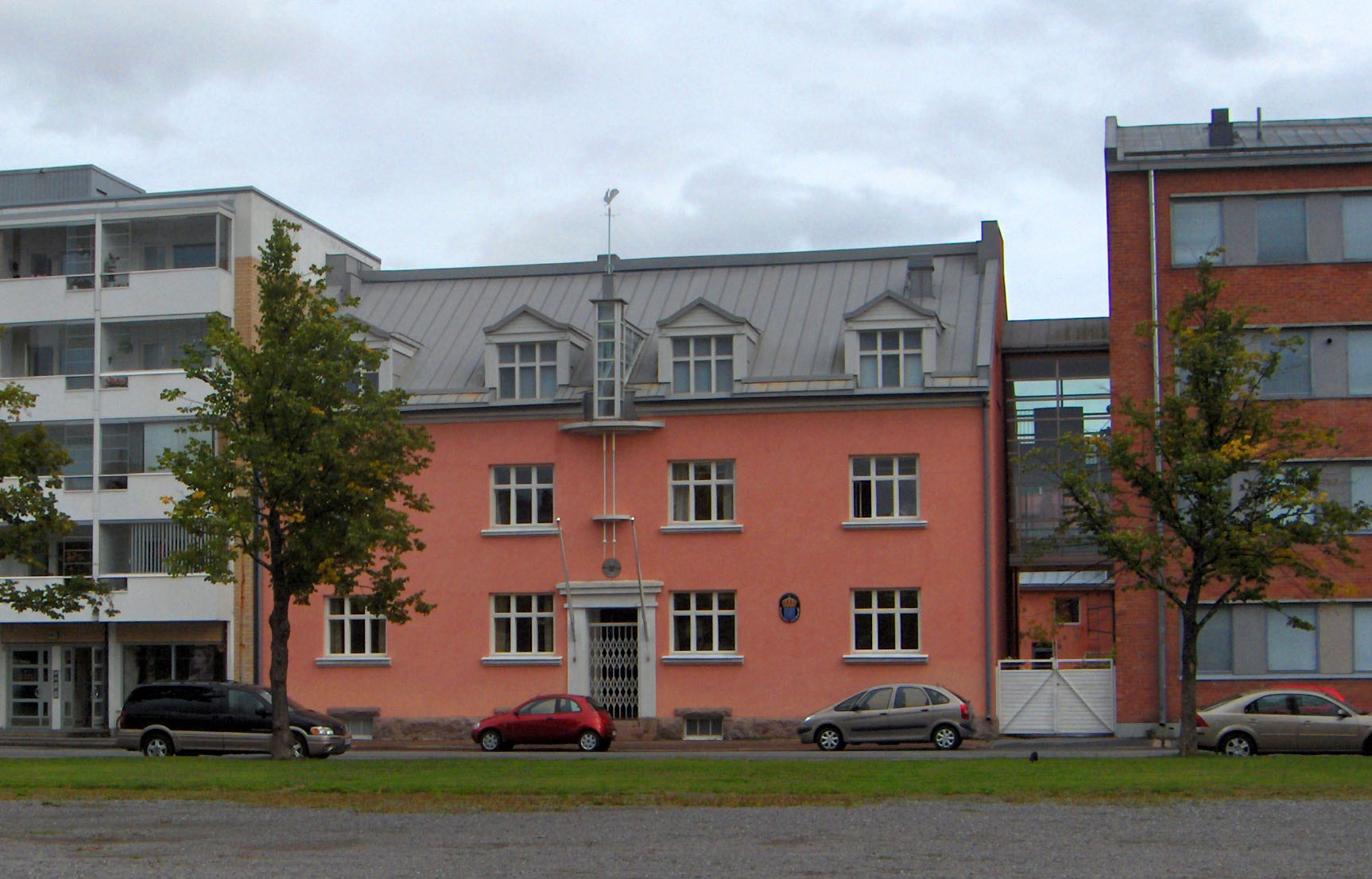 Björneborgs svenska samskola, the Swedish School of the city of Pori, Finland. The pink building in the photo is the oldest part of the school, the red brick building the newer part.